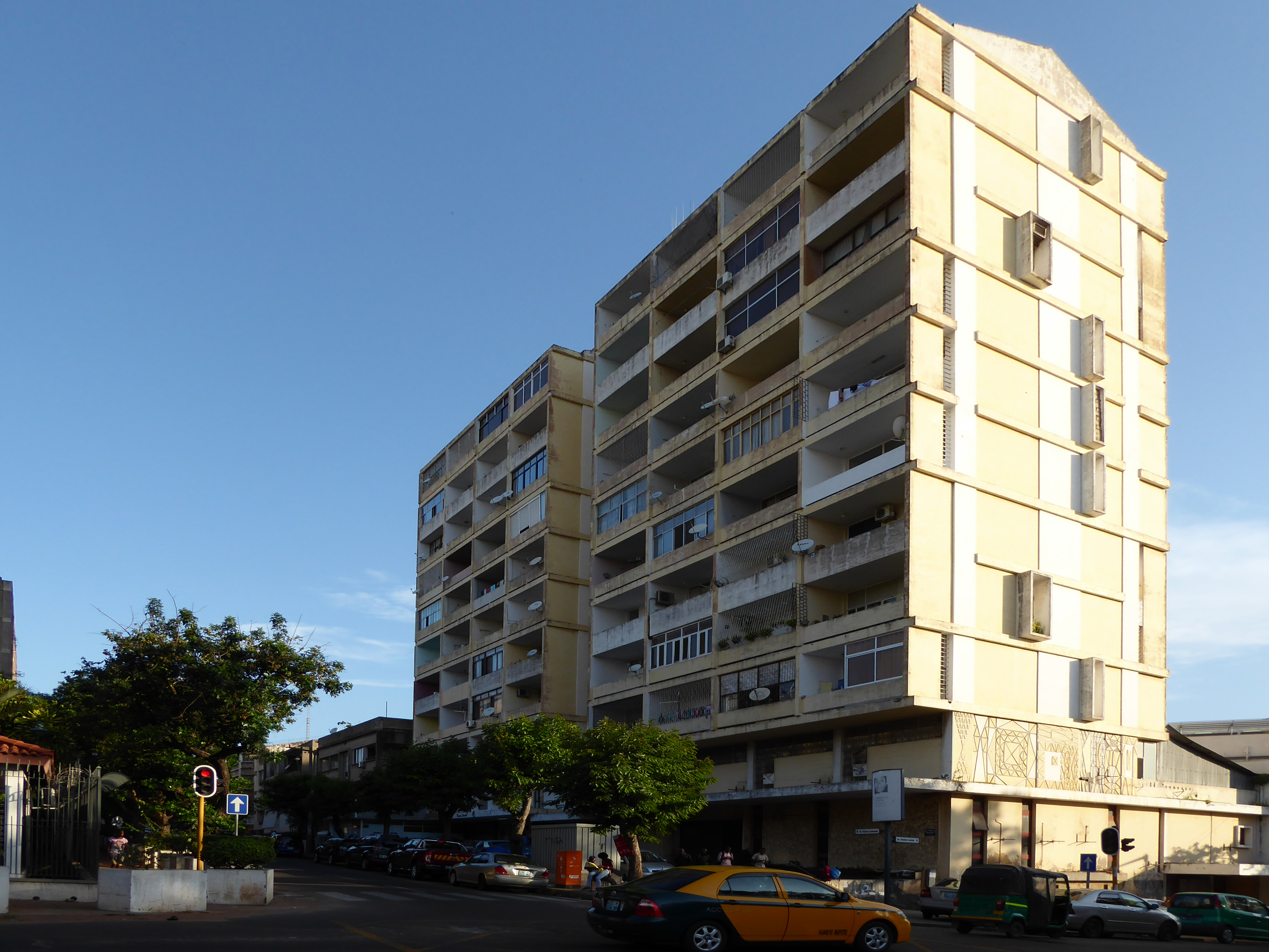 Tonelli building by Pancho Guedes, Maputo, Mozambique